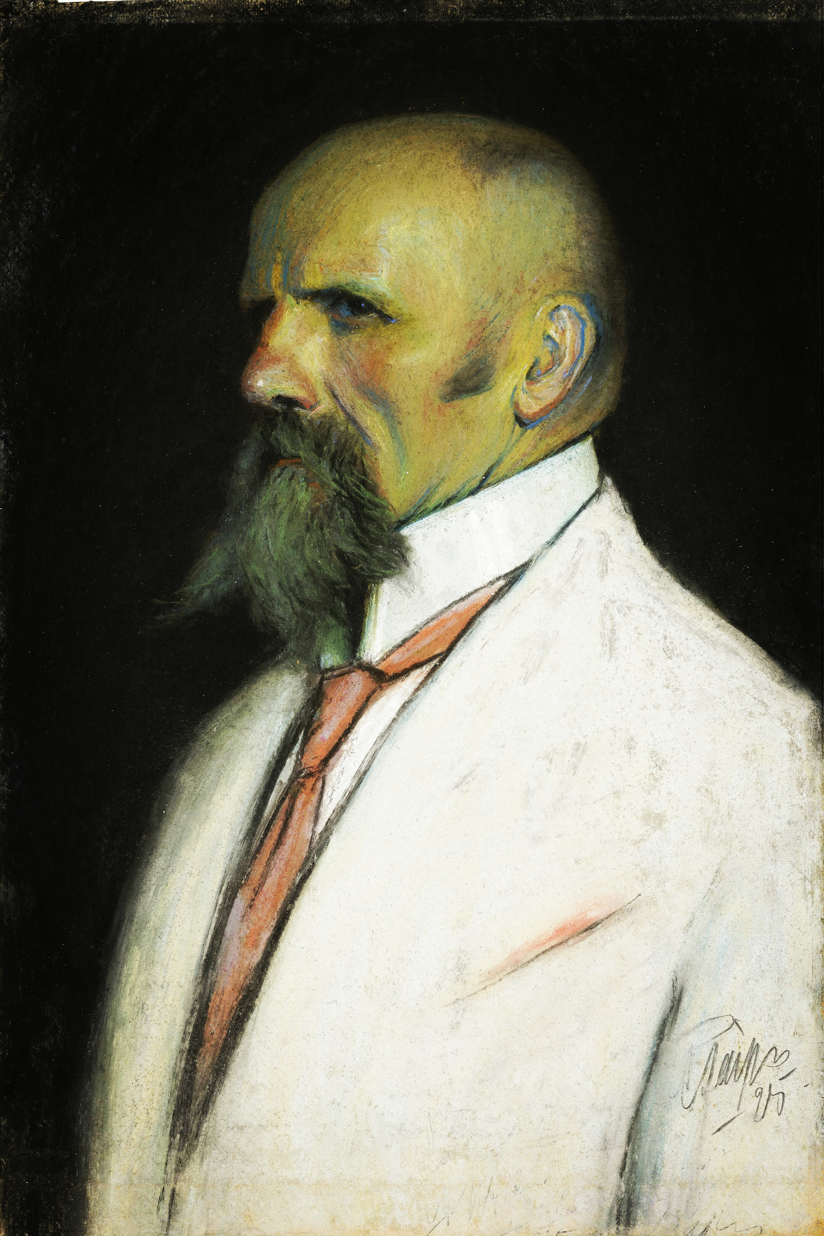 Ants Laikmaa "Self-portrait" 1925